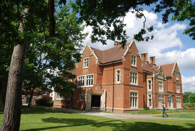 Garrard House, Hadlow Agricultural College